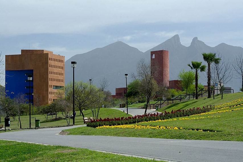 The Graduate School of Public Management (left) and the EGADE Business School (right) of the Monterrey Institute of Technology and Higher Education in San Pedro Garza García (Greater Monterrey), Mexico.